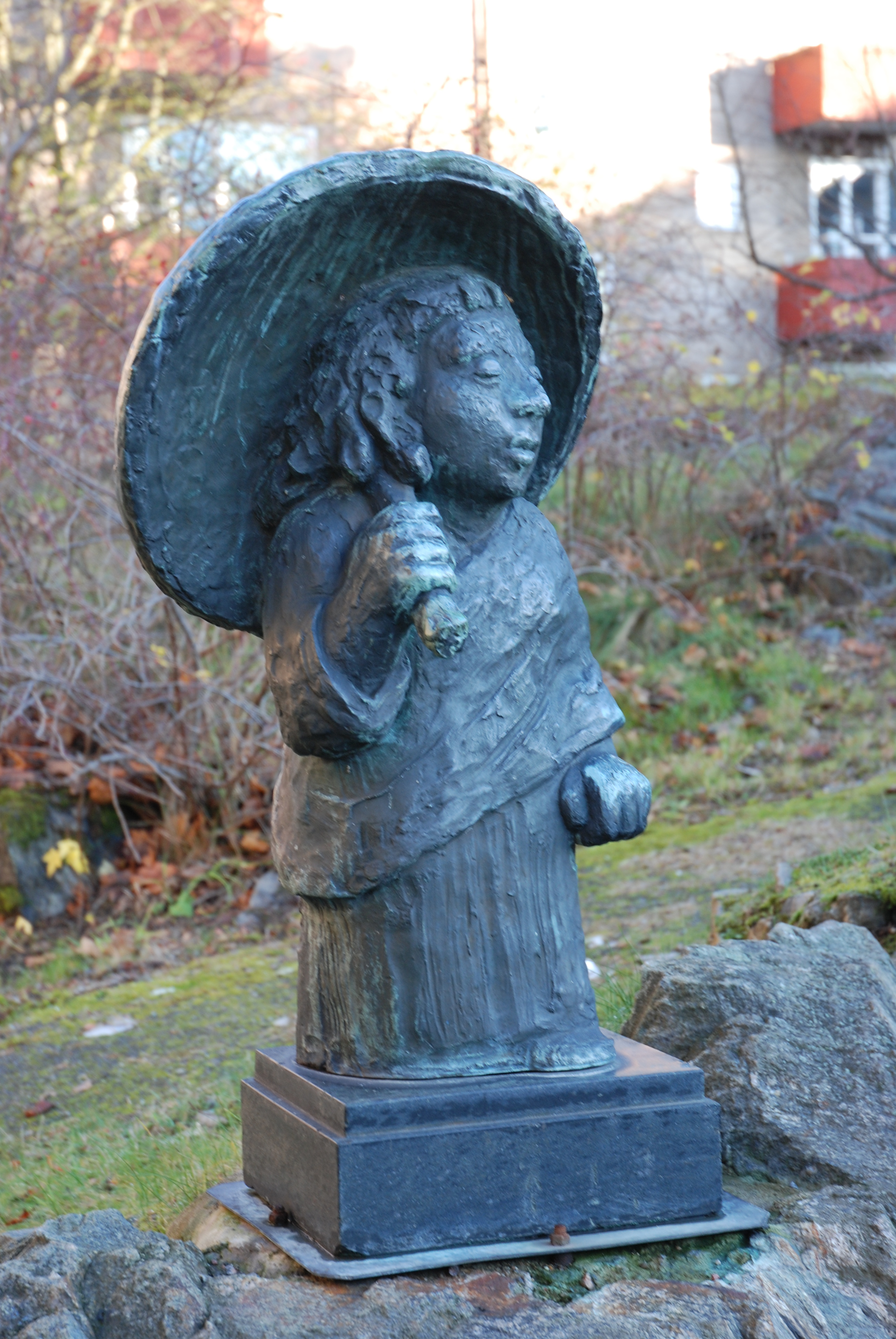 Adam Fischer´s Girl with a parasol (Flicka med parasoll), Västertorp, Stockholm, Sweden